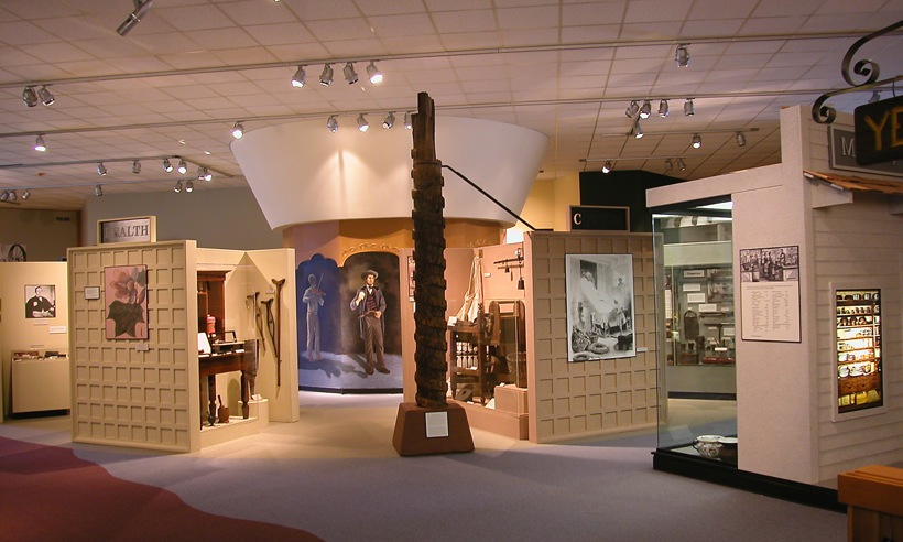 The second floor exhibits of the Star of the Republic Museum depict the social and multicultural history of Texas during the 1830s and 1840s. Through impressive design, the exhibits portray the daily life and practices of the Republic settlers.